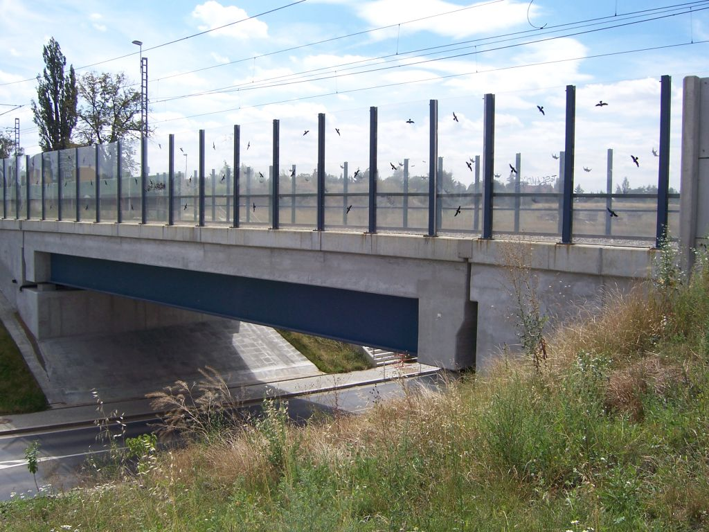 Prague-Uhříněves, Ke kříži Street, railway underbridge